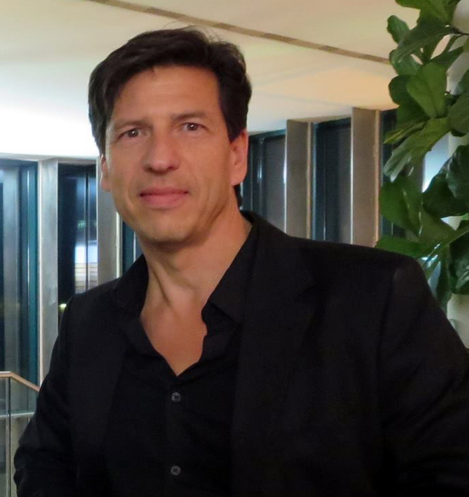 Photo of German painter Michael Maschka